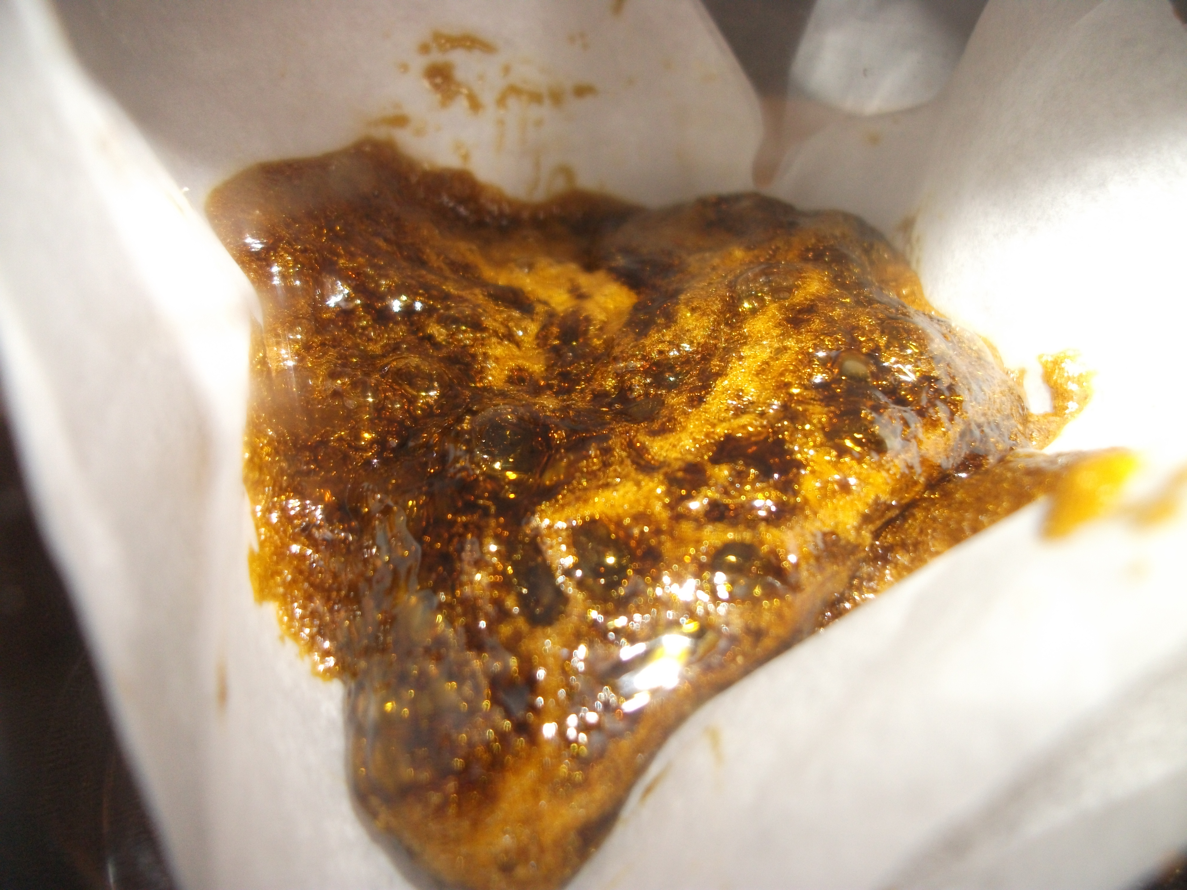 all done with cannabis sativa exterior trimmings and lot of love